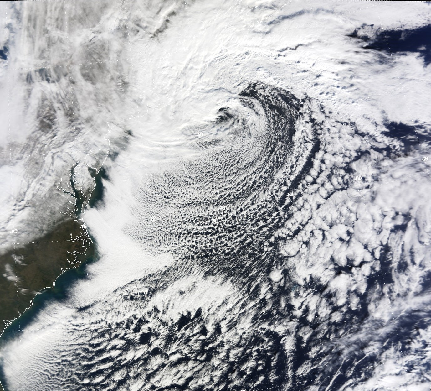 Satellite image of the North American blizzard of 2009 on December 20.